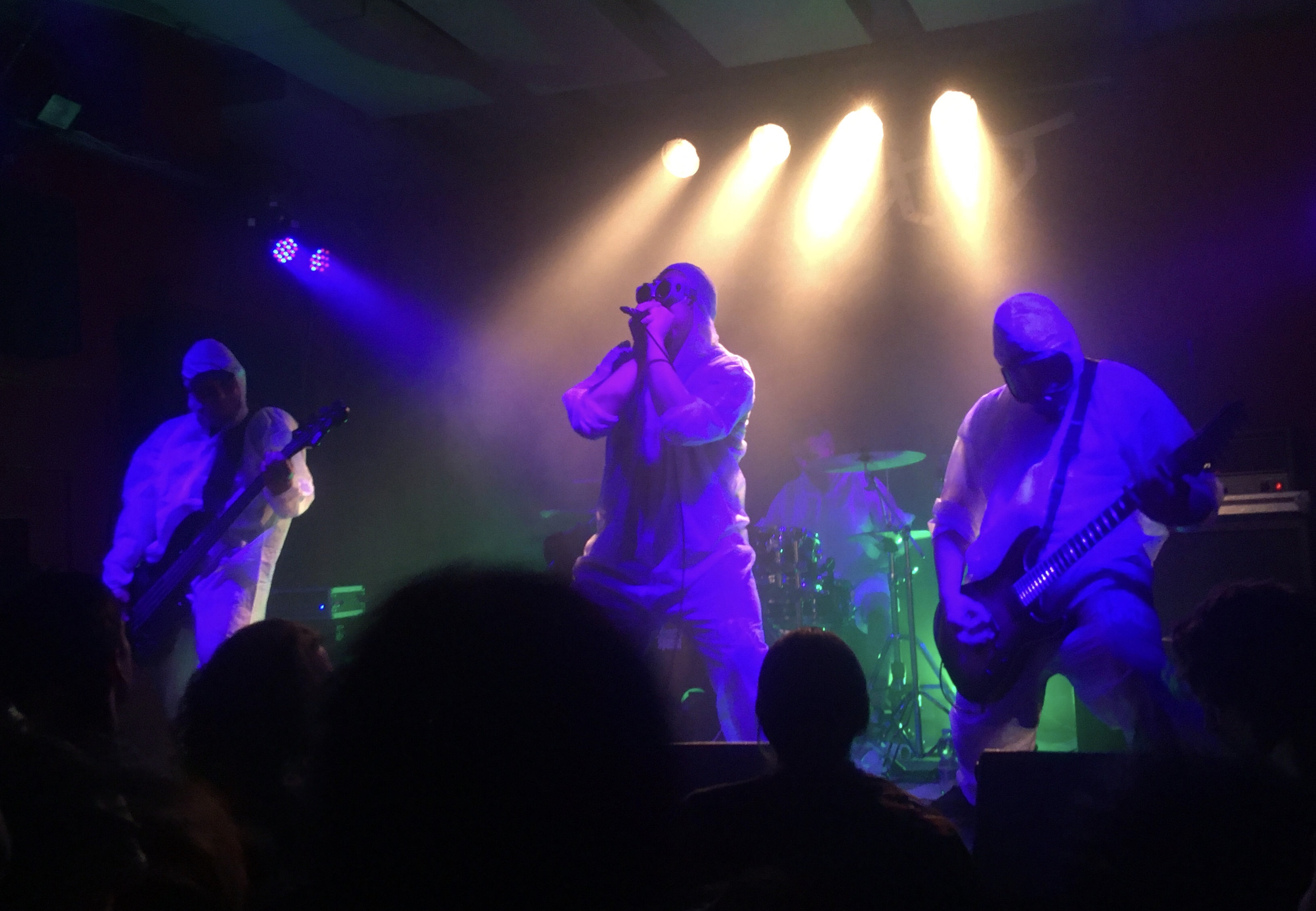 Czech goregrinders Gutalax performing in Orto bar, Slovenia, 18. 10. 2019